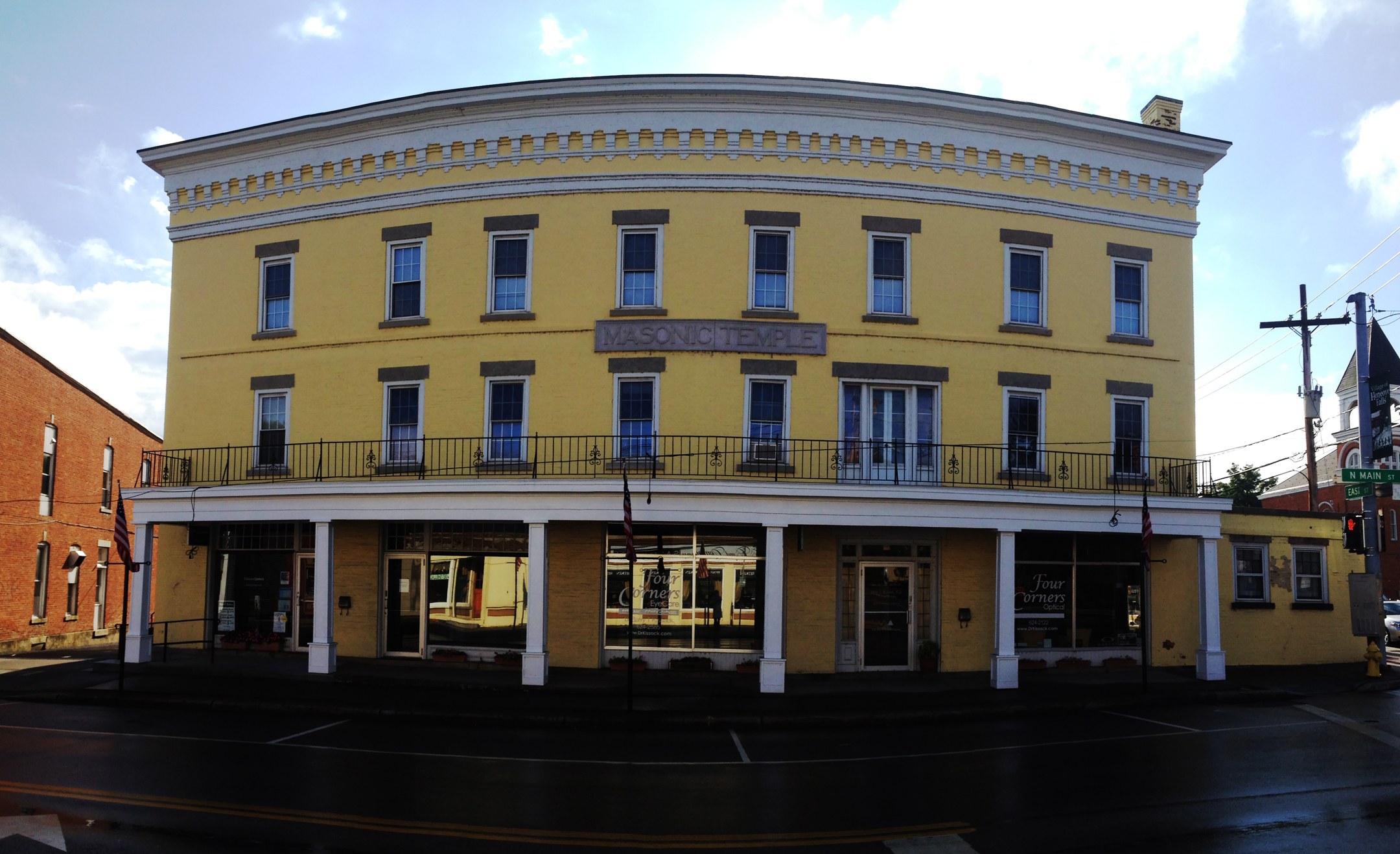 Masonic Temple, Main Street, Honeoye Falls, NY